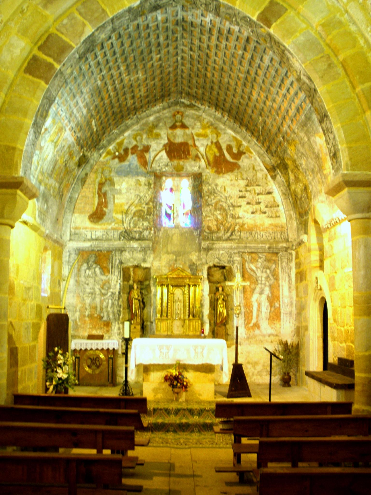 Iglesia parroquial de San Cosme y San Damián, en Basconcillos del Tozo (Burgos, Castilla y León, España)